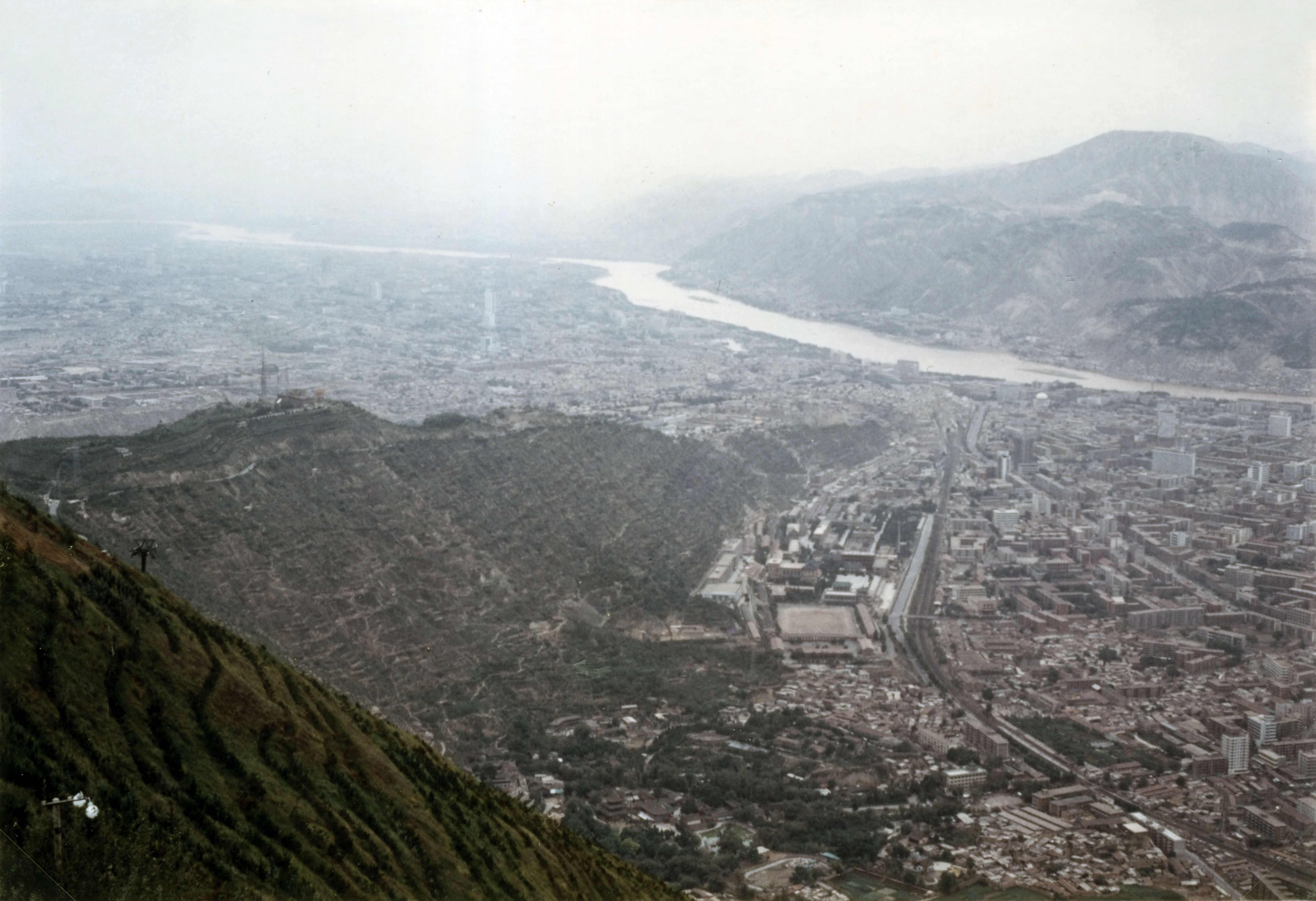 View of the city of Lanzhou as seen from Lanshan, looking towards the west. Date most likely July 1989.